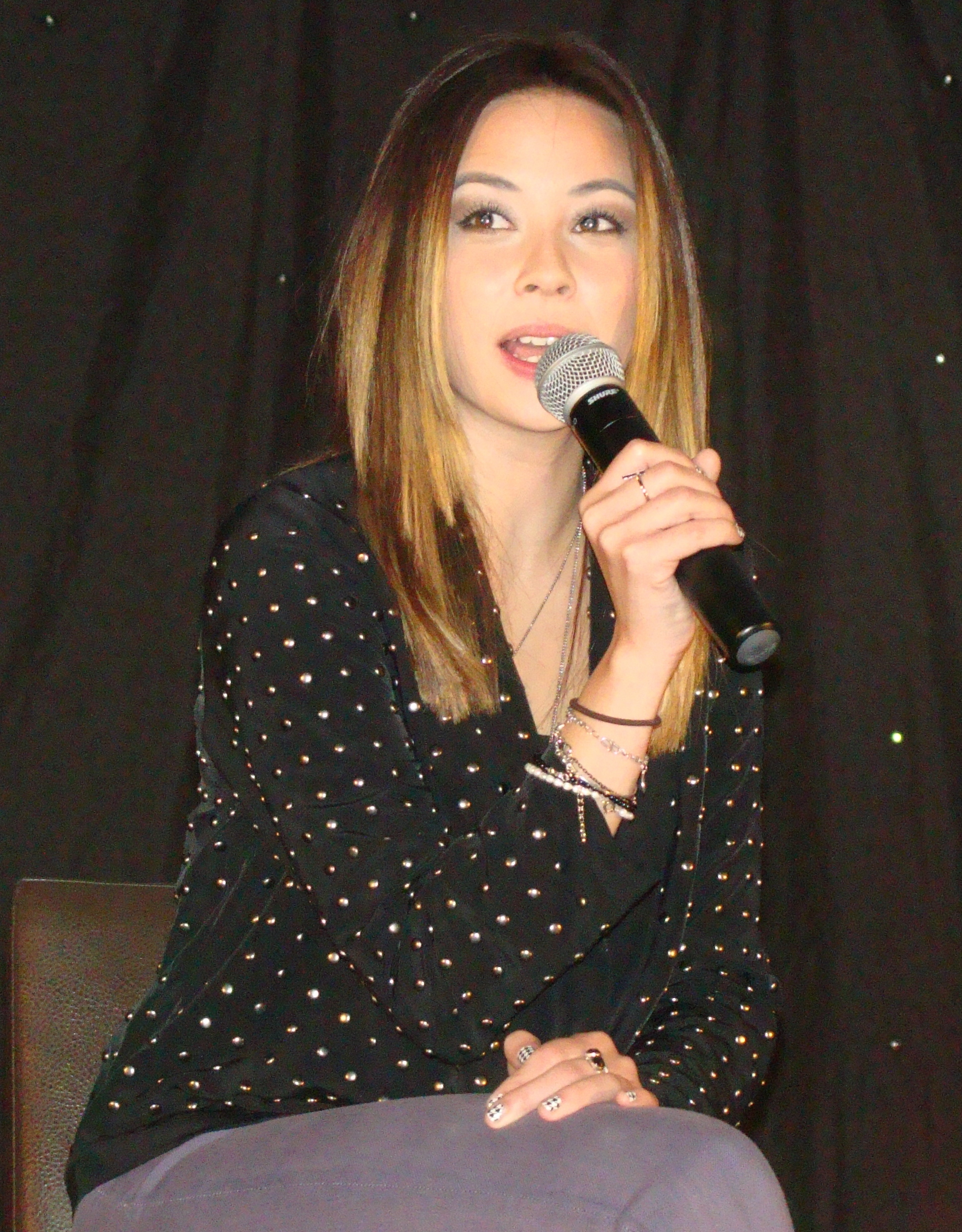 Interview with Malese Jow from The Vampire Diaries in June 2012.